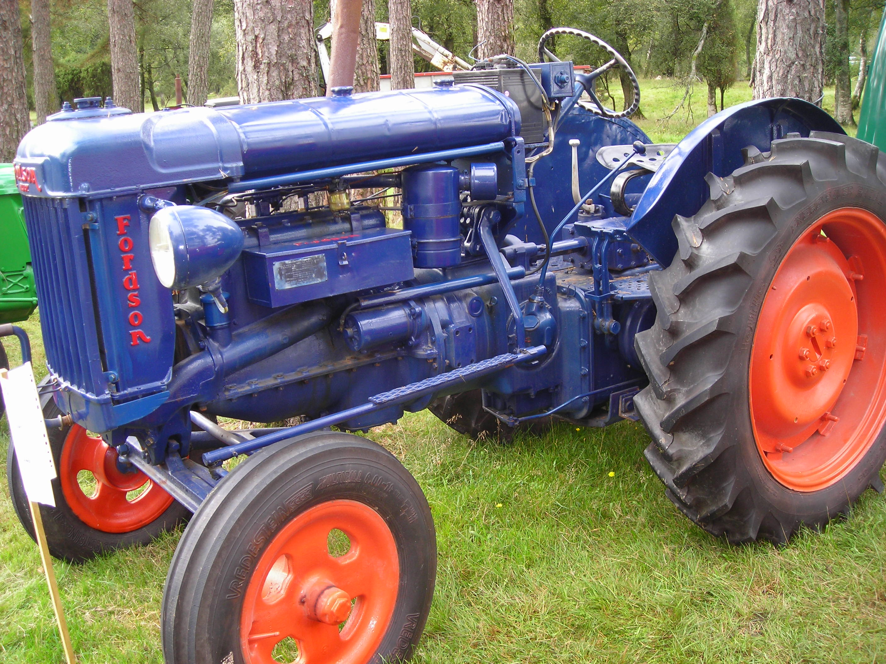 A 1947 Fordson E27N major photographed at Lyngdal Dyrskue september 2006